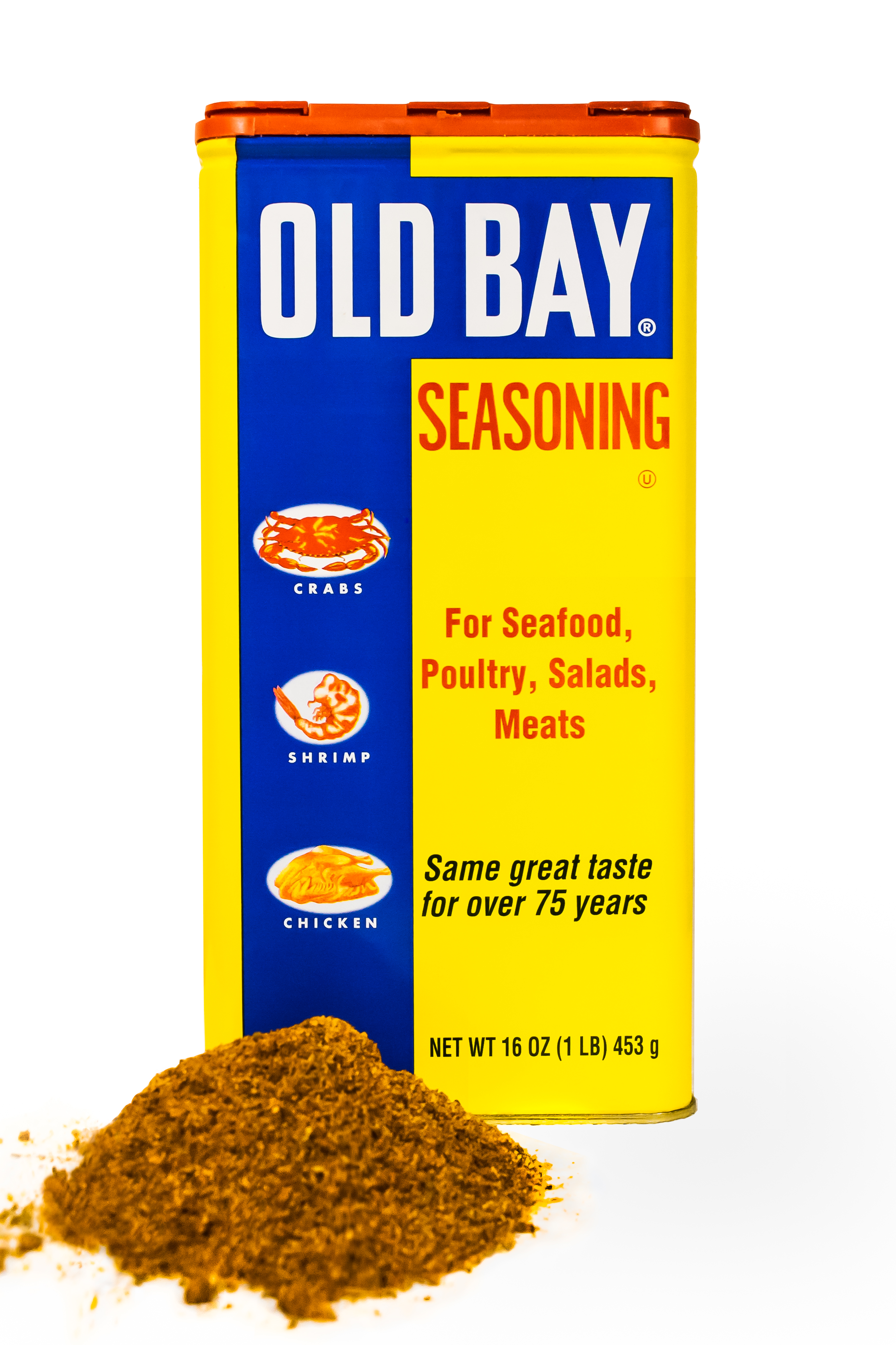 Cropped version of "Old Bay". 16 oz. can of Old Bay spice with a small heap of its contents in the foreground.